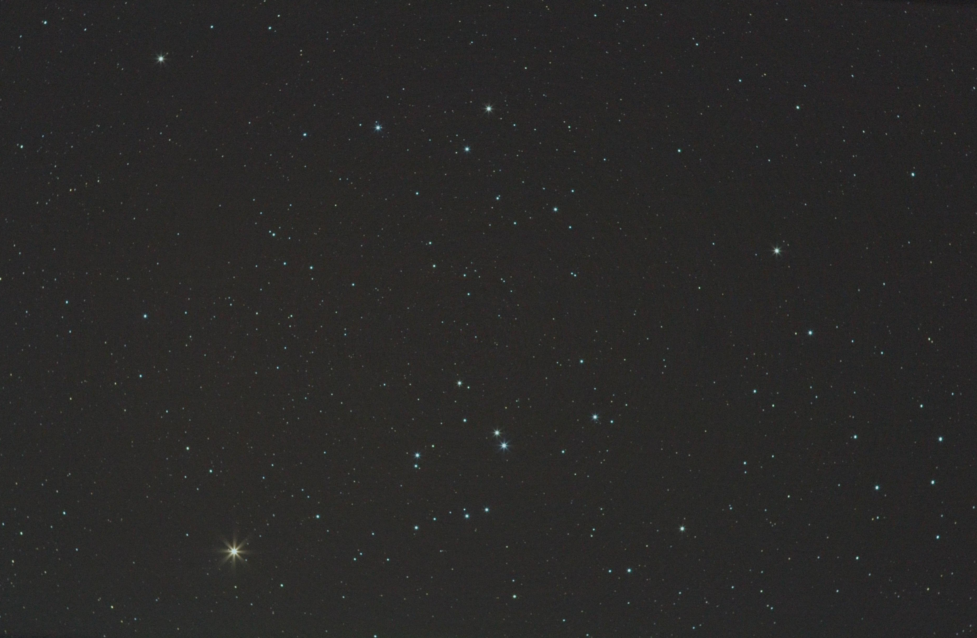 Image of the central area of the constellation Taurus taken from a typical backyard in the city.